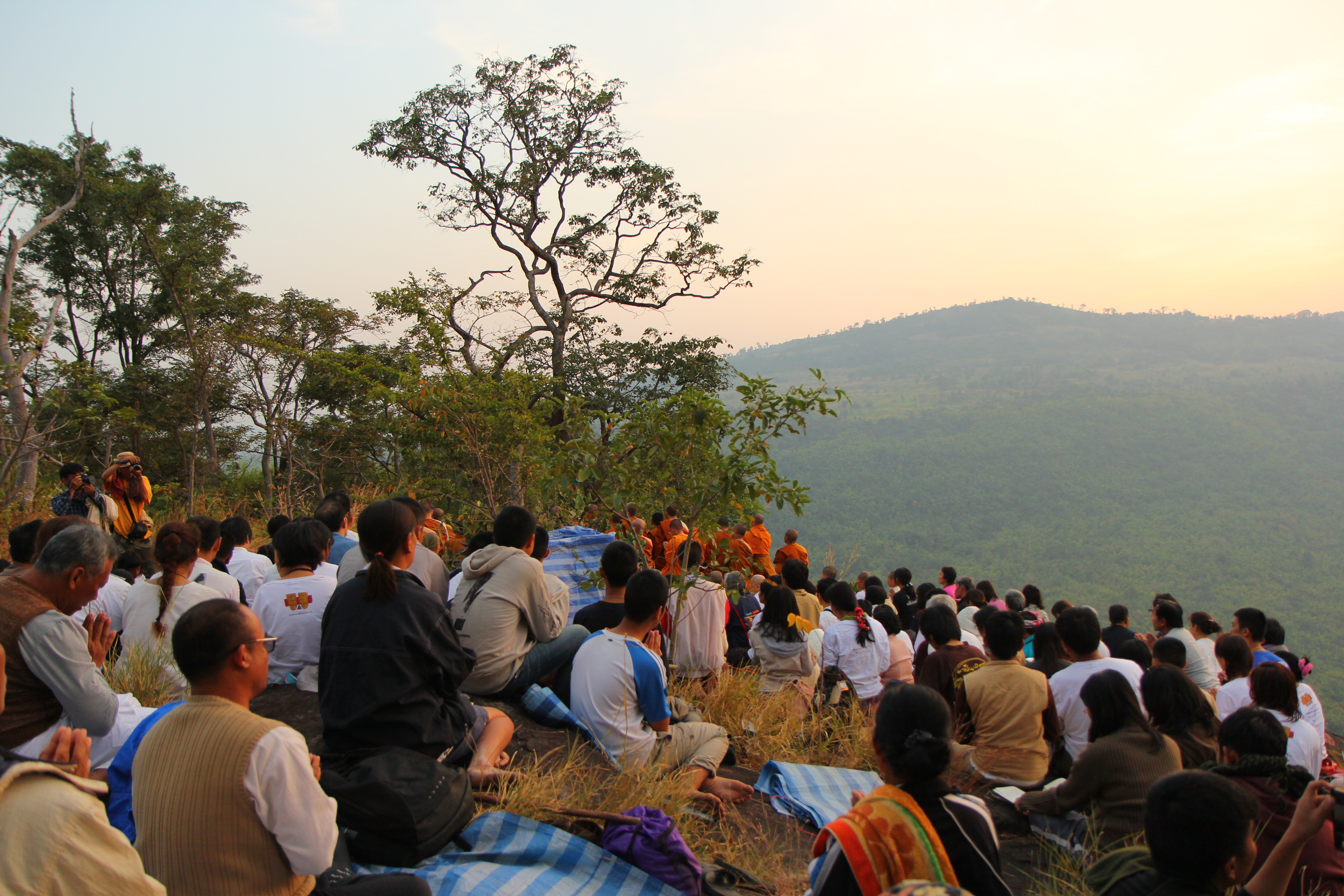 Dhammayatra of Lampatao River Basin group meditating during the sun set